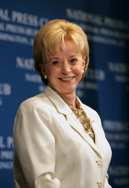 rs. Lynne Cheney is seen Thursday, Oct. 18, 2007, following an address at the National Press Club in Washington, D.C.